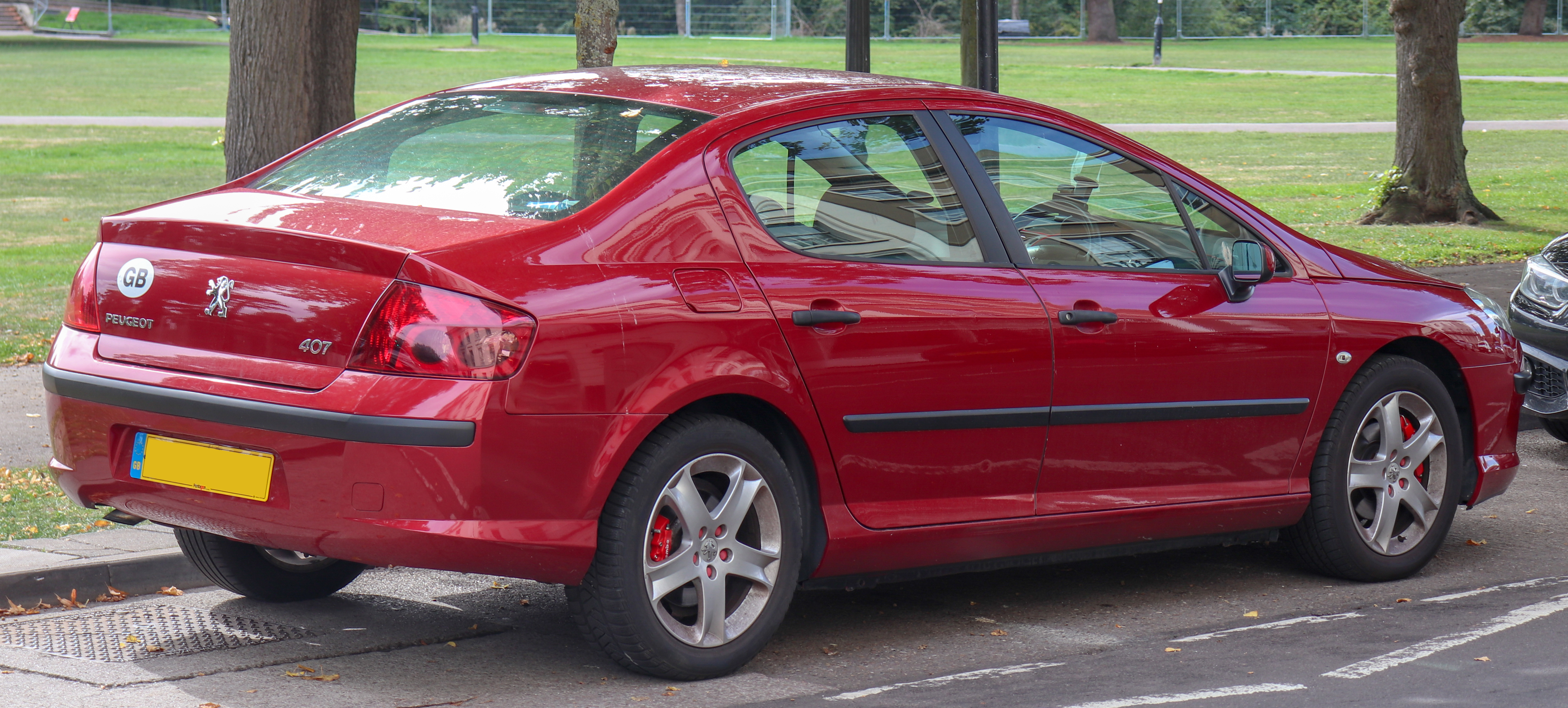 2006 Peugeot 407 S HDi Saloon 1.6 Rear Taken in Leamington Spa